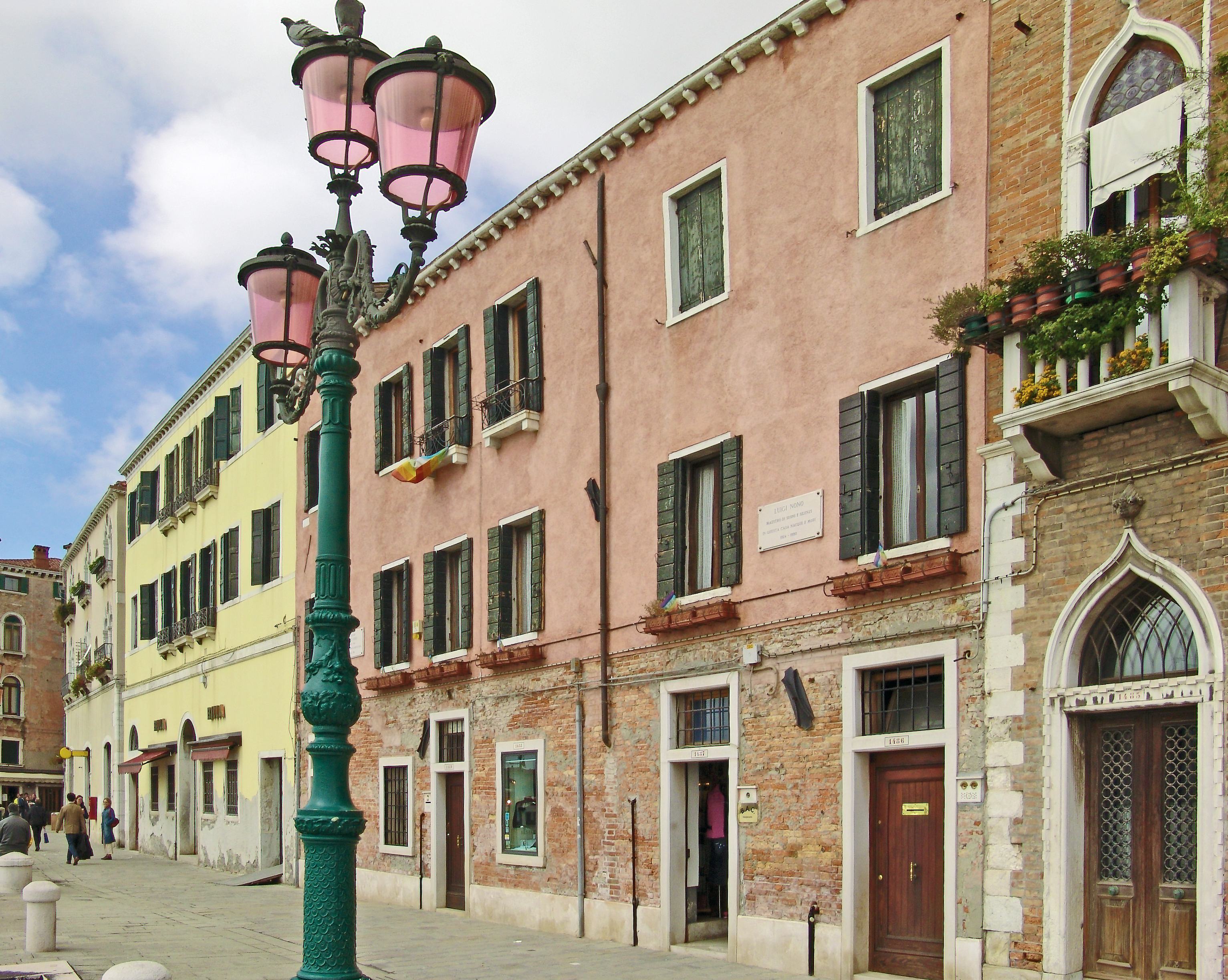 Zattere al ponte Longo at the Dorsoduro, Venice, Italy. Birthplace of the painter Luigi Nono (1850-1915) and his grandson the modernist composerLuigi Nono (1924–1990), were born.